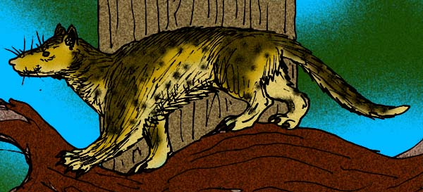 Crop of file in filename